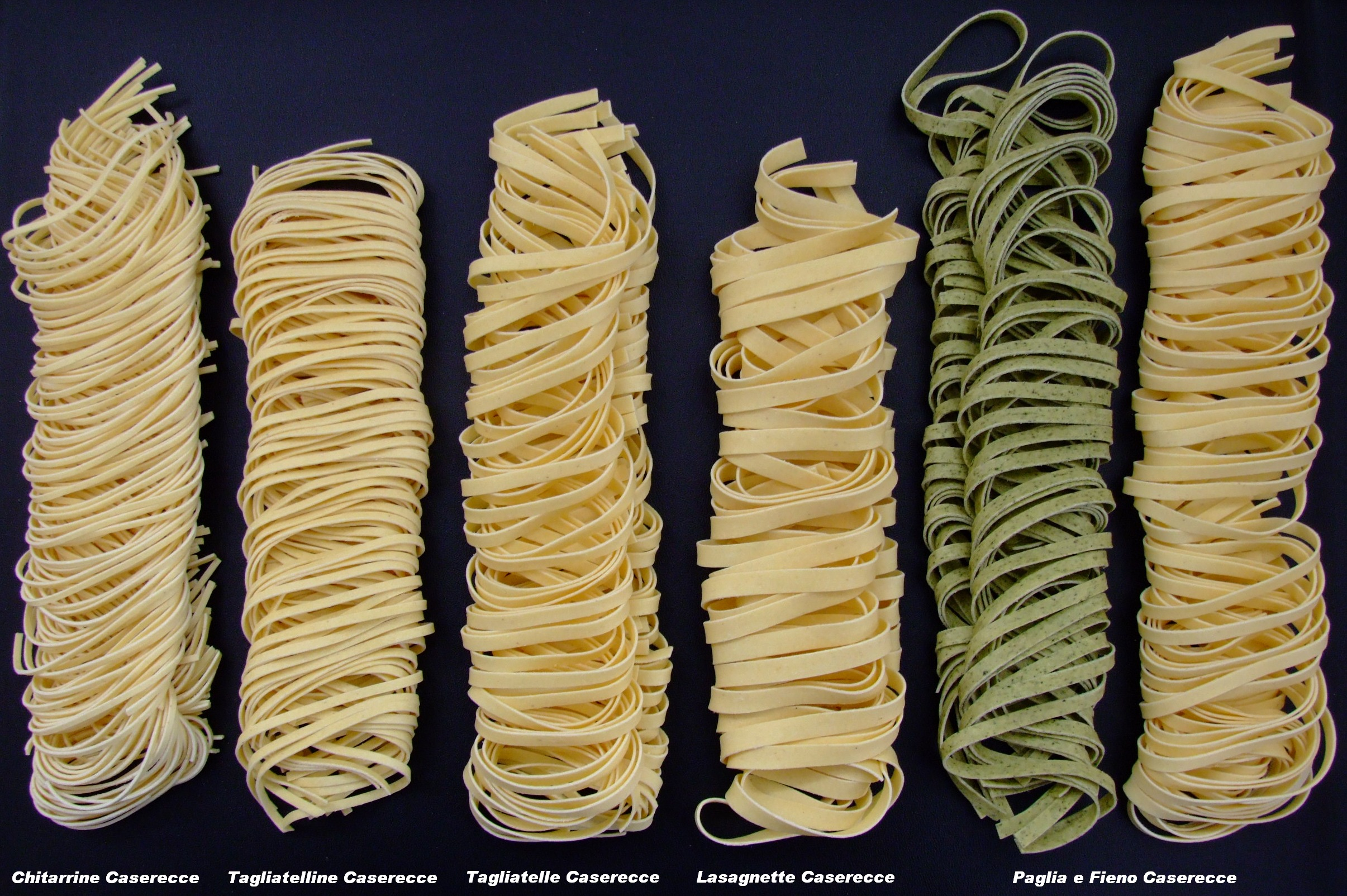 different sorts of Pasta